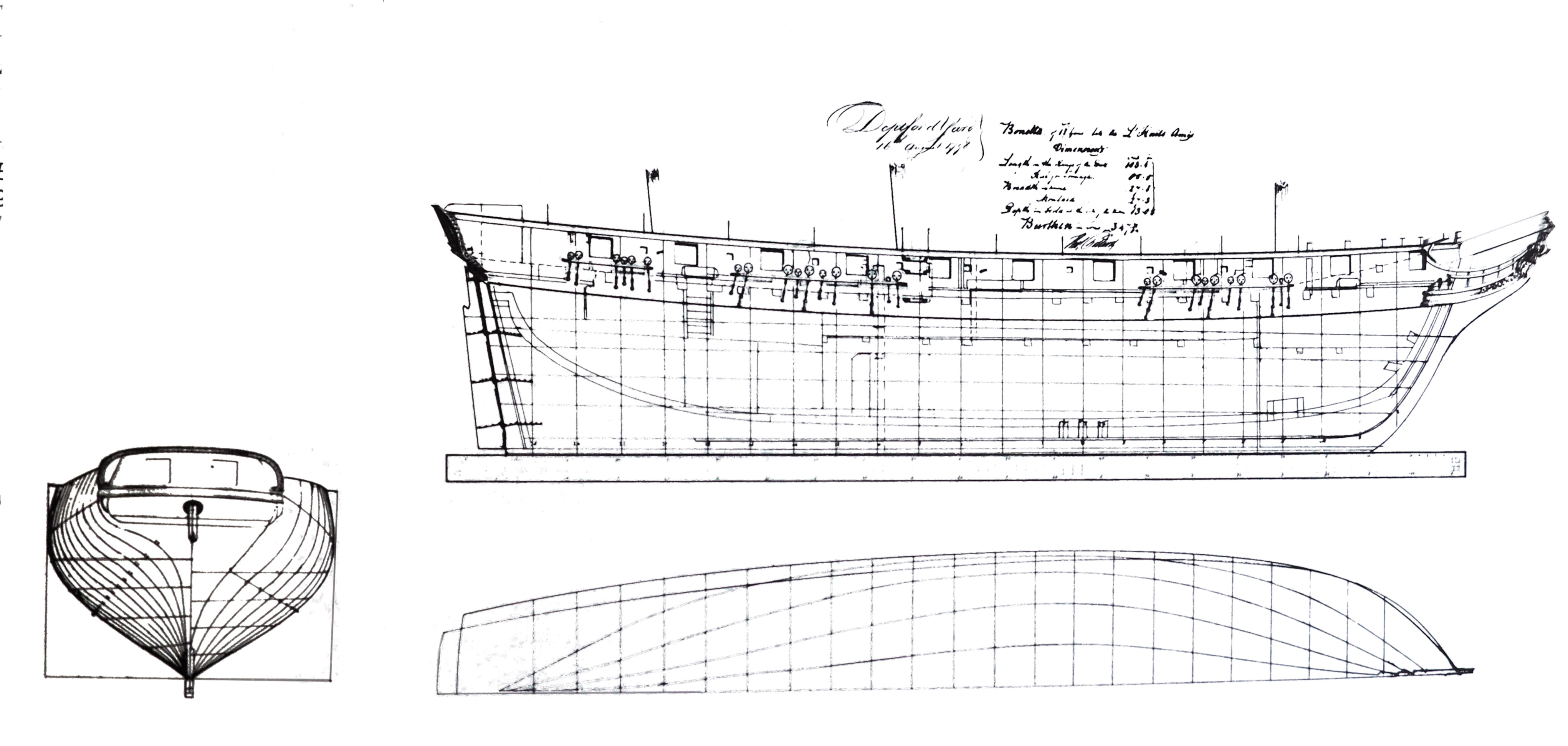 Plans and elevation of the French privateer Huit Amis, captured and taken into Royal Navy service as HMS Bonetta